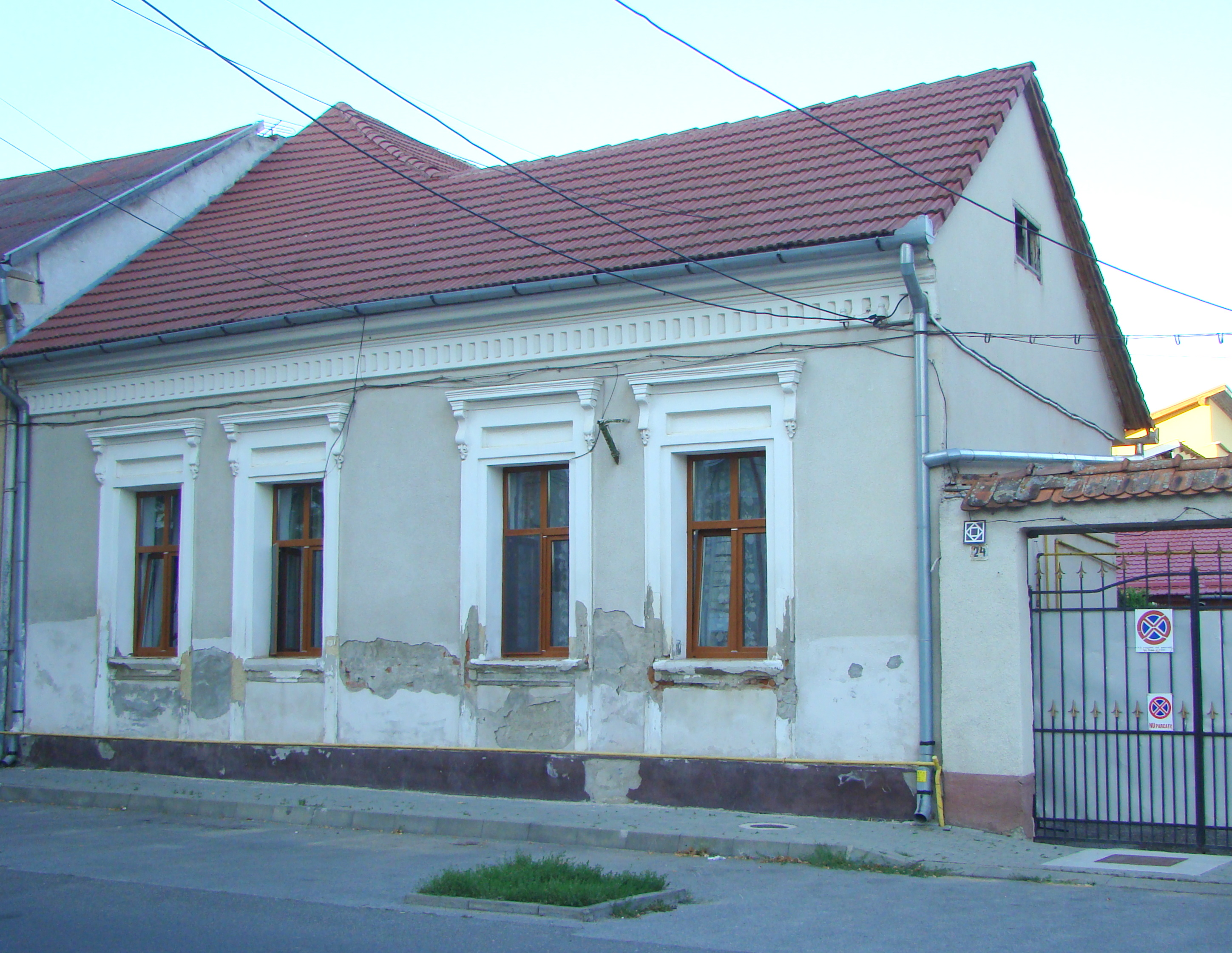 House, historic monument, Trandafirilor street, number 24, Alba Iulia, Alba county, Romania